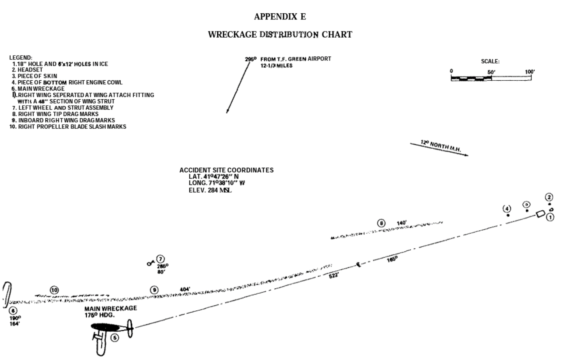 Pilgrim Airlines Flight 458 （N127PM） crashsite map from NTSB report.